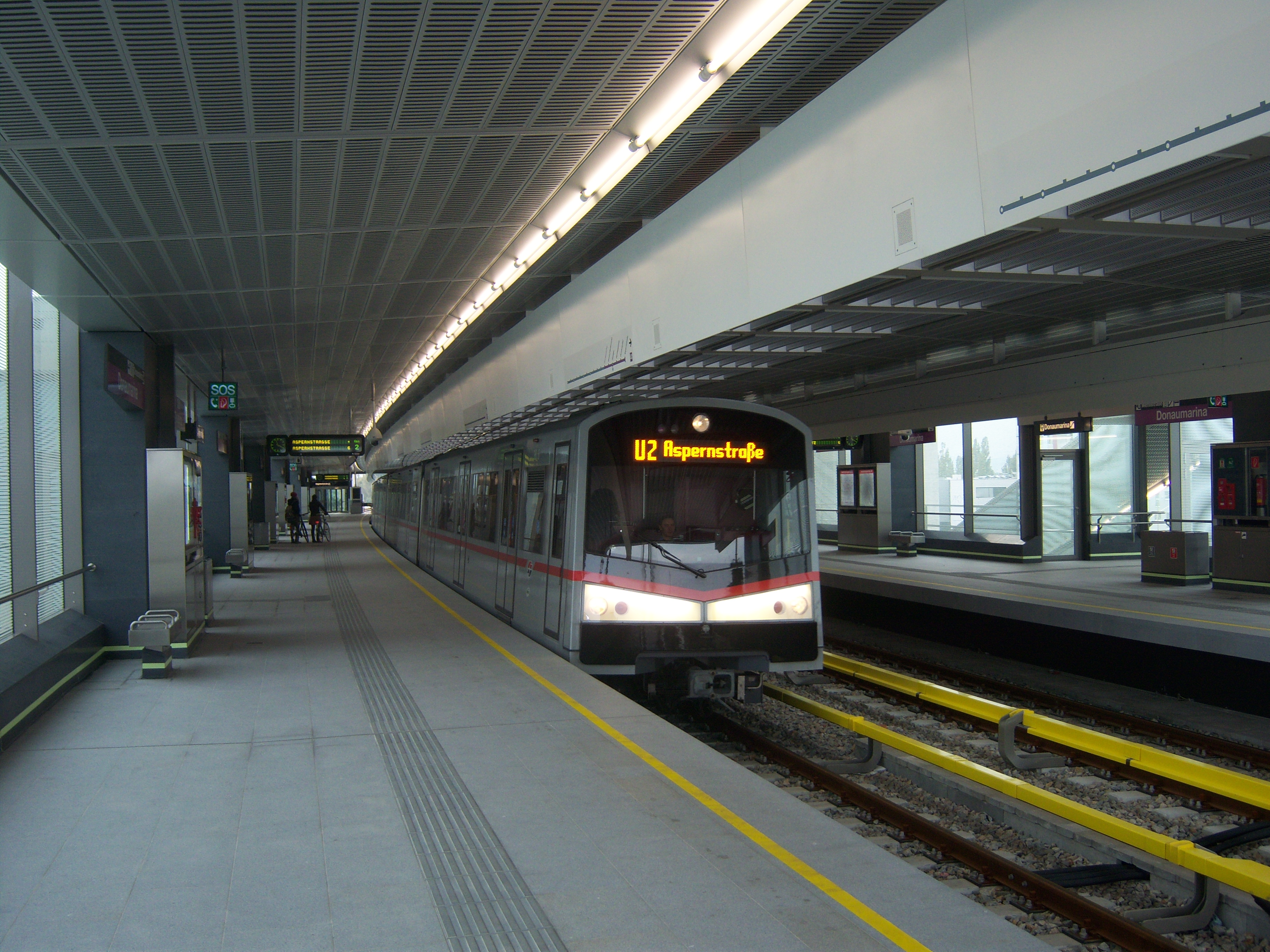 U2-Station Donaumarina